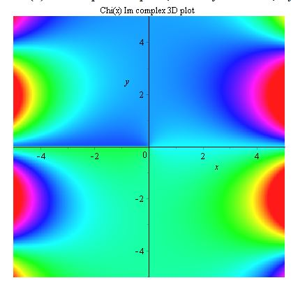 Chi(x) Im complex density plot